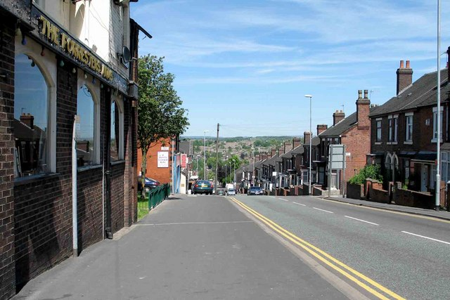 View down Ford Green road, (Smallthorne bank) from next to the "Forresters Arms"